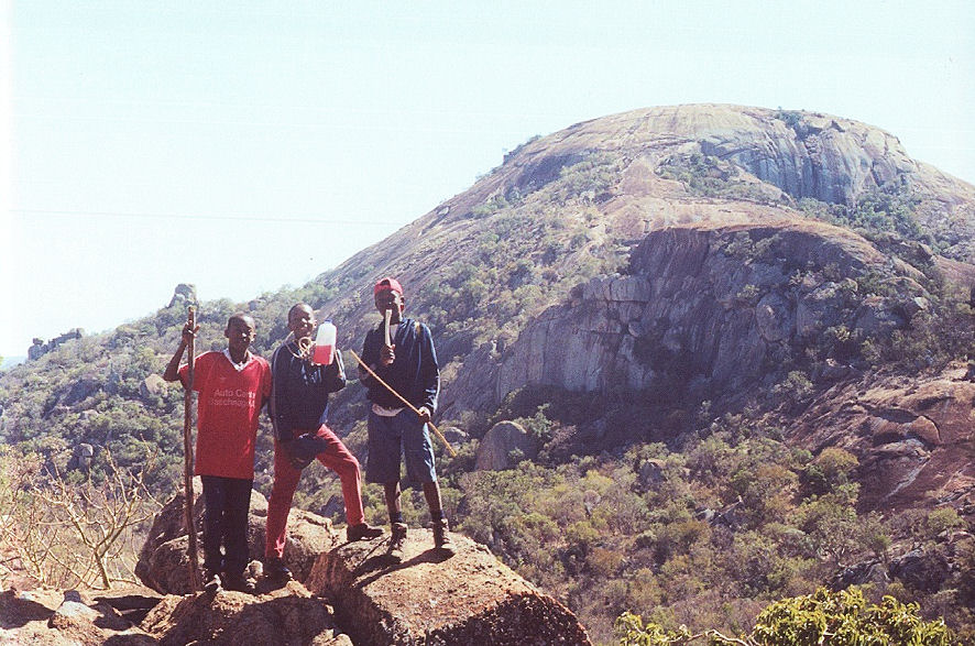 A group of boy scouts hiking up Nyahwe with Shumbashaw in the background, Matobo Hills, Zimbabwe